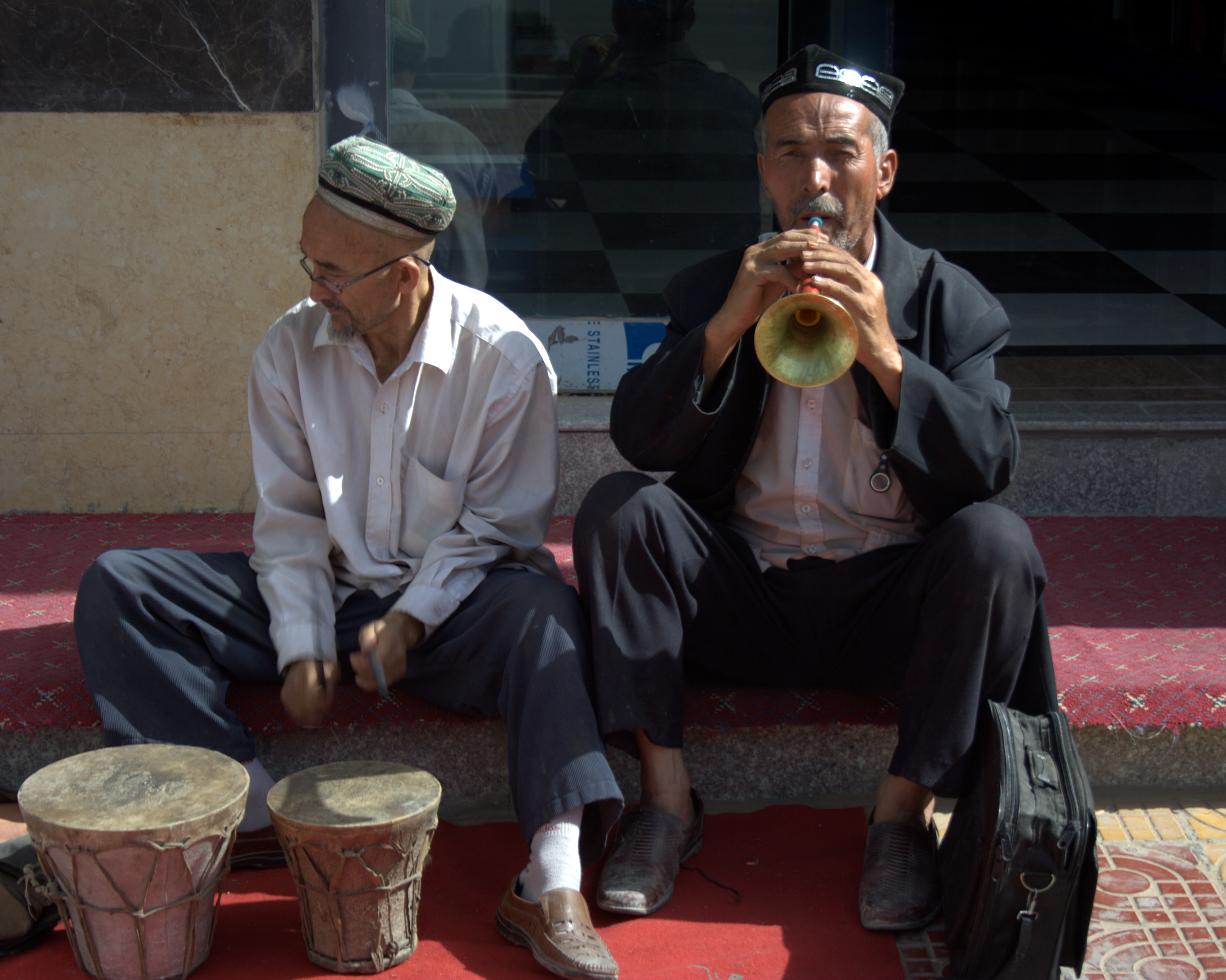 ئۇيغۇرچە / Uyghurche: Musicians at Hotan Sunday Market